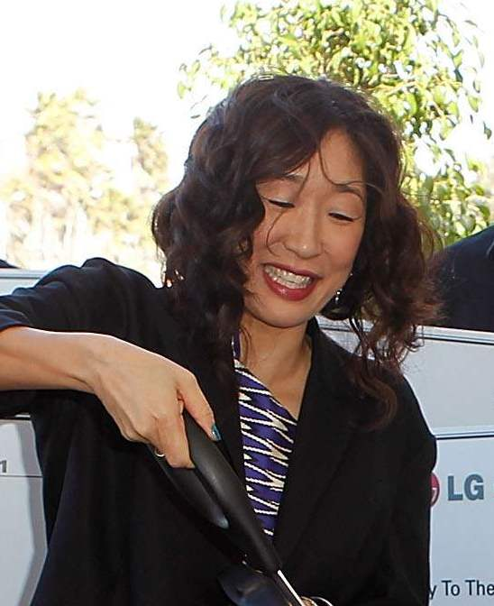 Sandra Oh at 2011 Independent Spirit Awards.